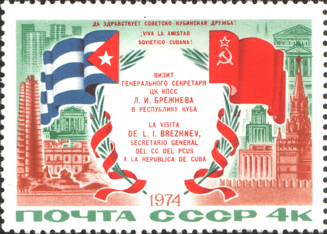 USSR stamp